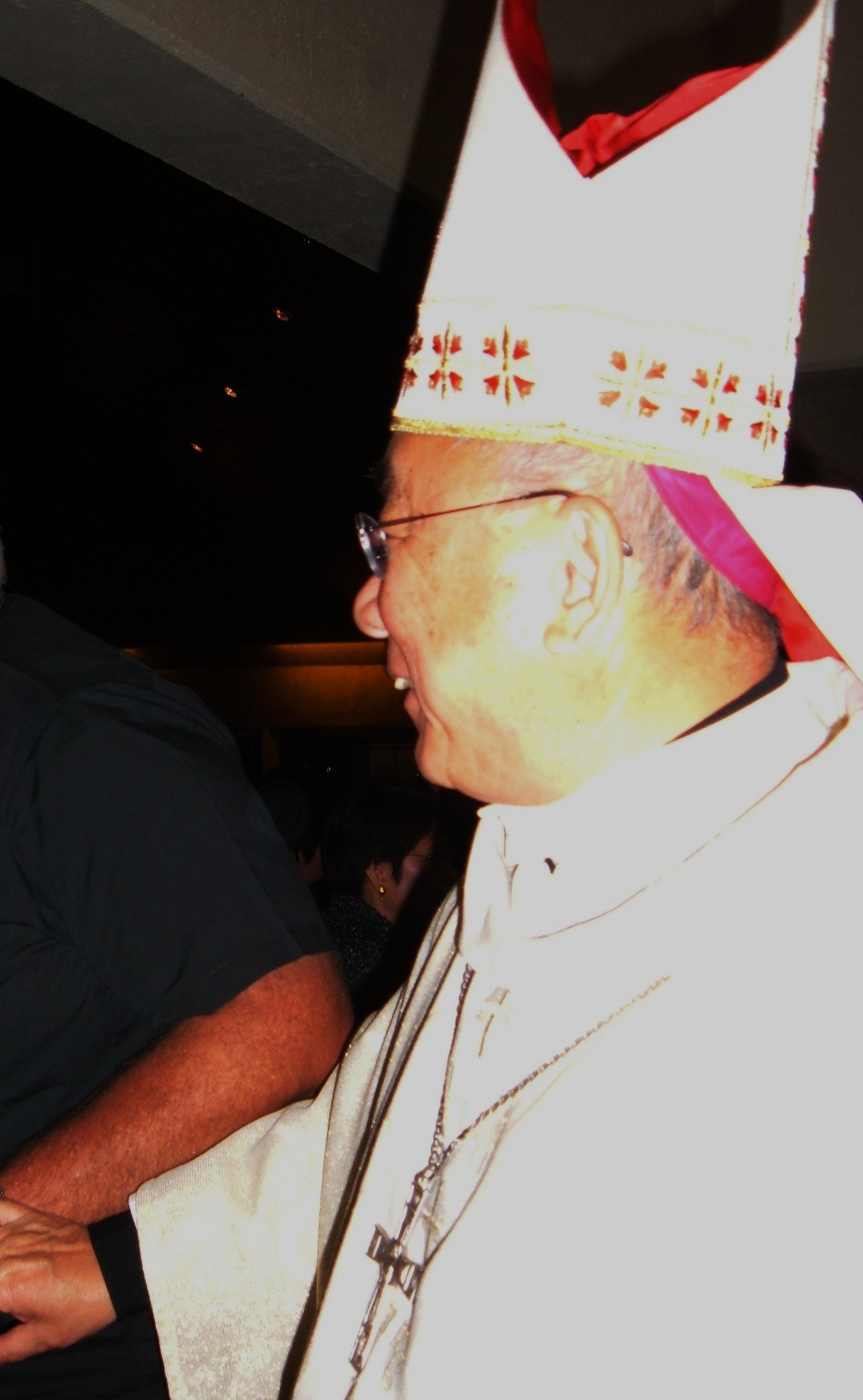 Bishop Ignatius Wang, auxiliary bishop of the Archdiocese of San Francisco, at a memorial mass in San Mateo.